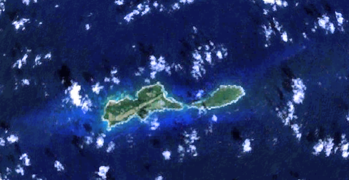 Satellite image of Swan Islands, Honduras